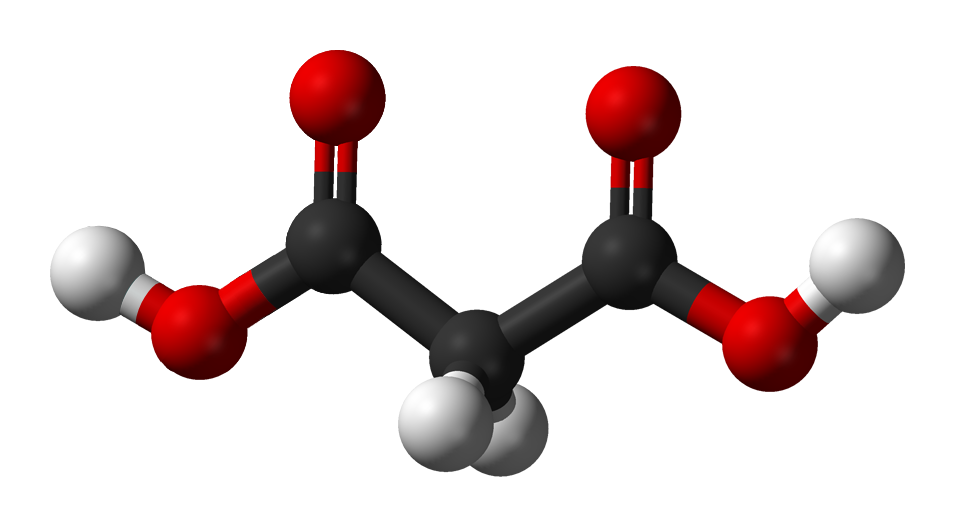 Ball and stick model of the malonic acid molecule.